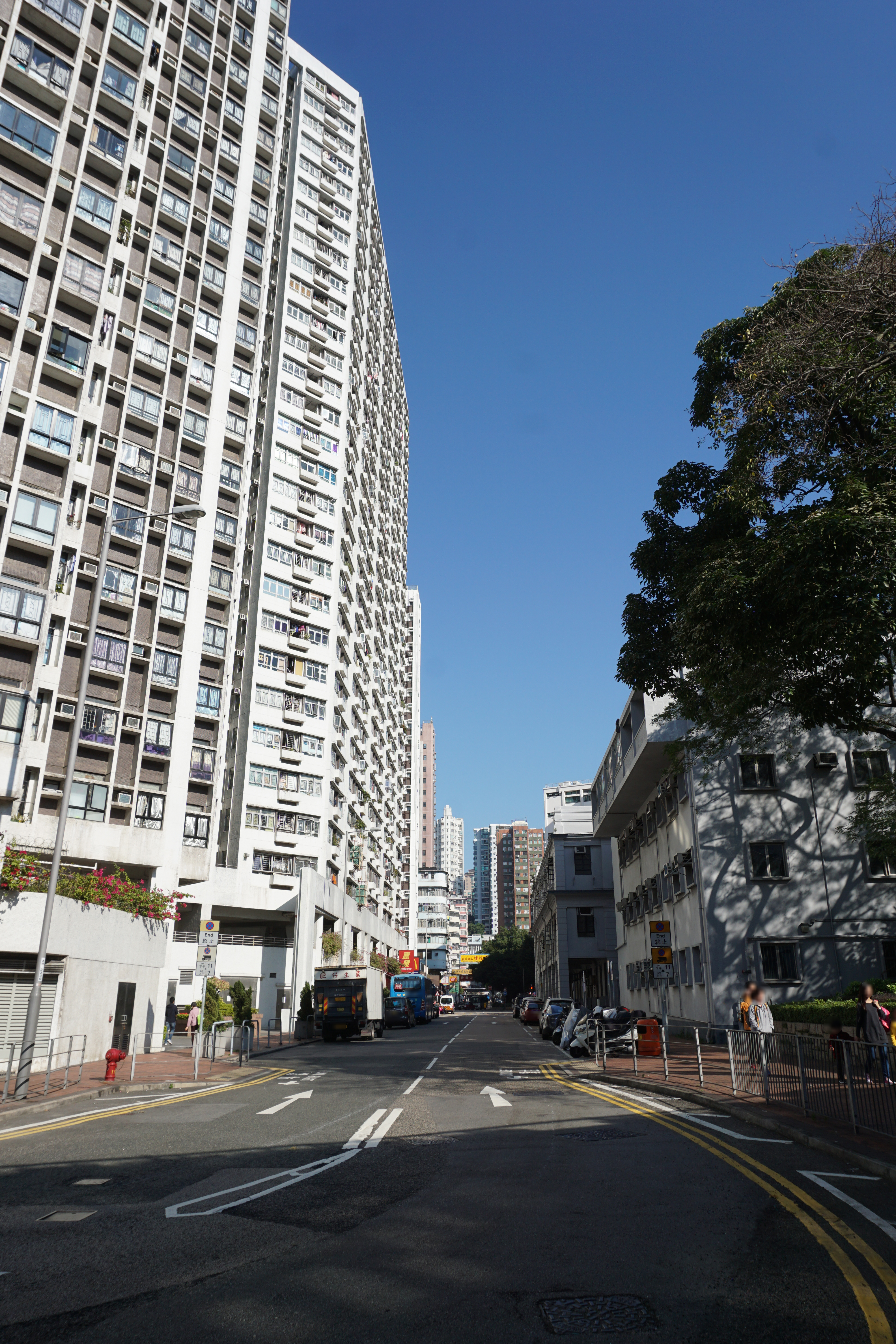 Public Square Street in Yau Ma Tei, Hong Kong.